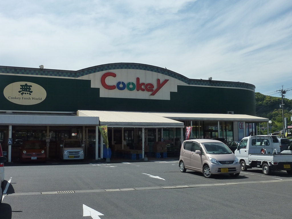 Supermarket "Cookey" Kokubu-kita Store in Kirishima City, Kagoshima, Japan.